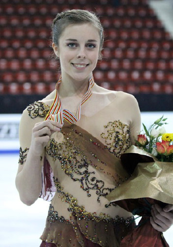 Ashley Wagner (USA) during the ladies medals ceremony at the 2009 World Junior Figure Skating Championships.